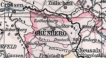 Detail from a map of Silesia.